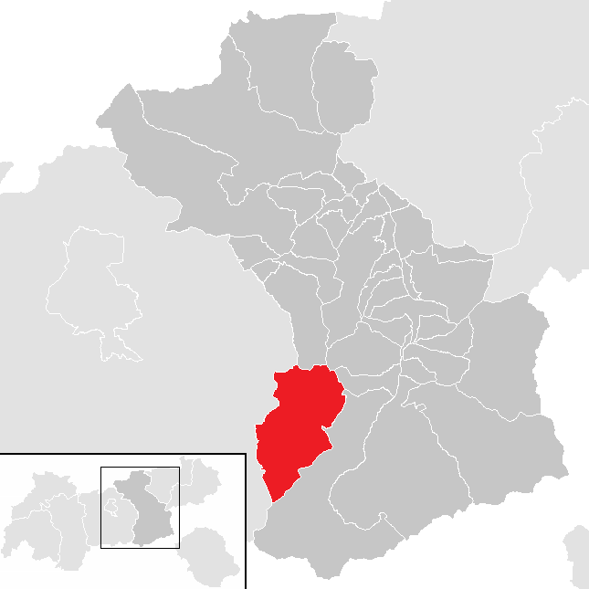 District Schwaz